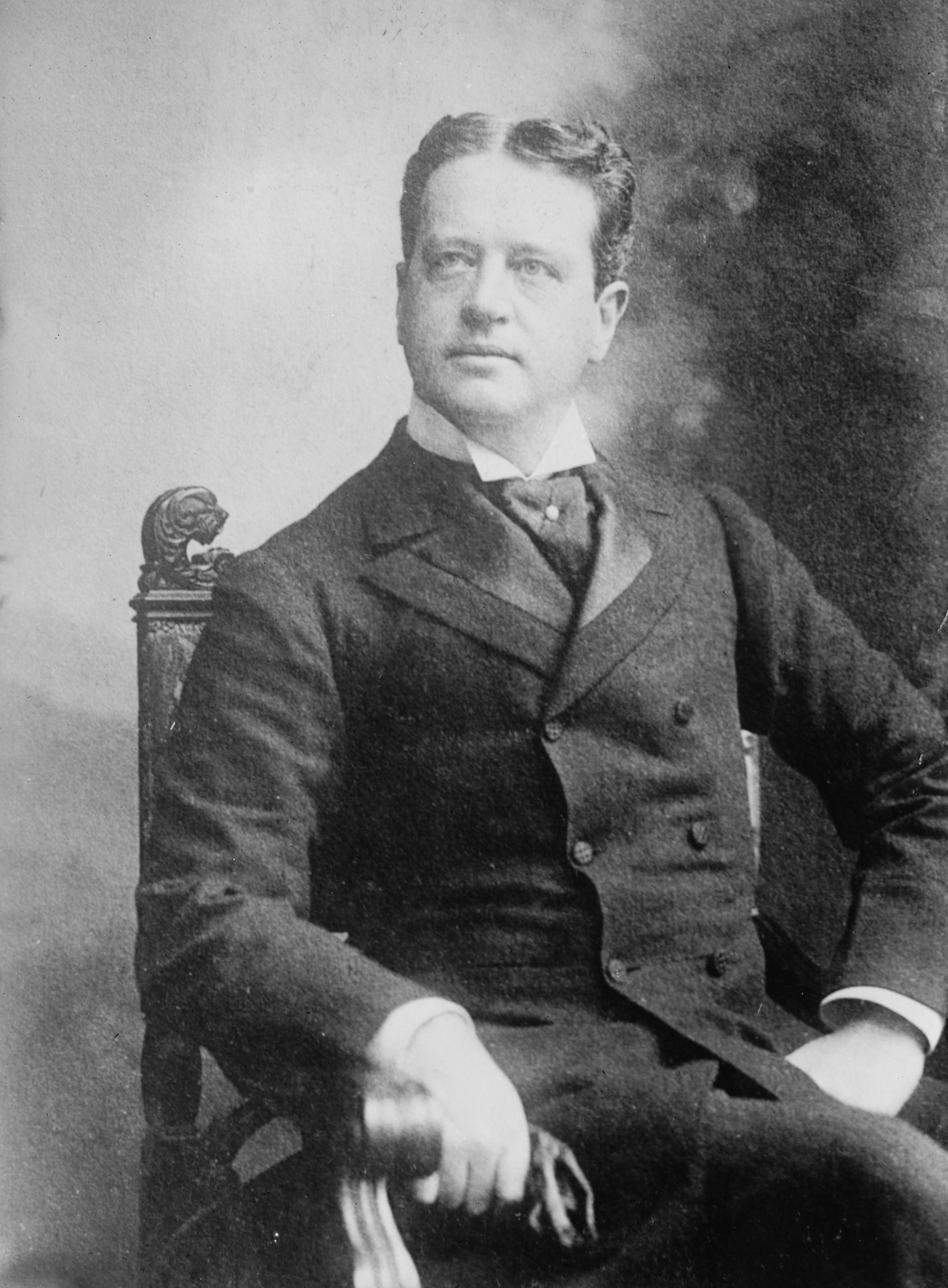 Title: W.K. Vanderbilt Abstract/medium: 1 negative : glass ; 5 x 7 in. or smaller.